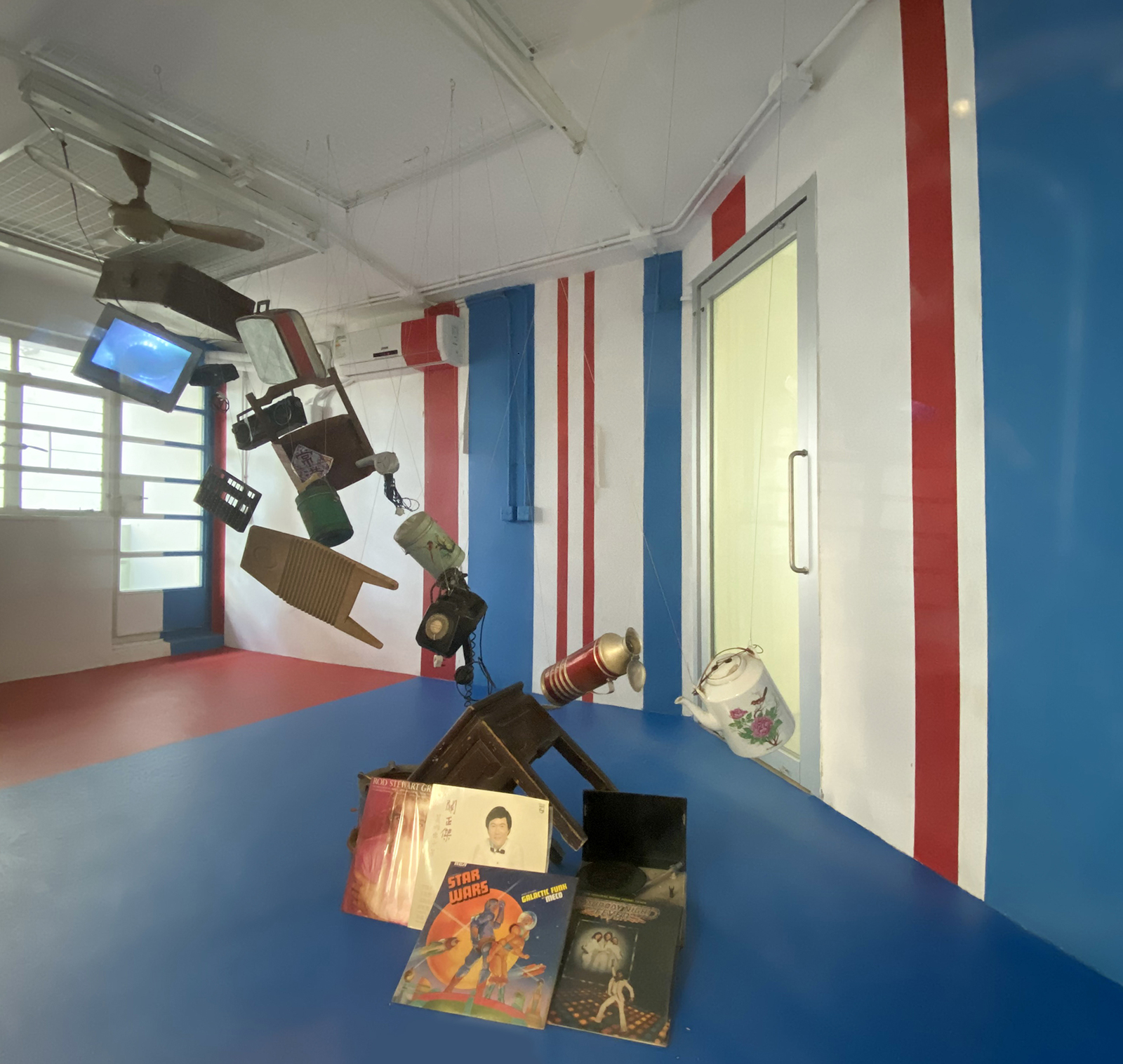 So Uk Estate Maple House showcase